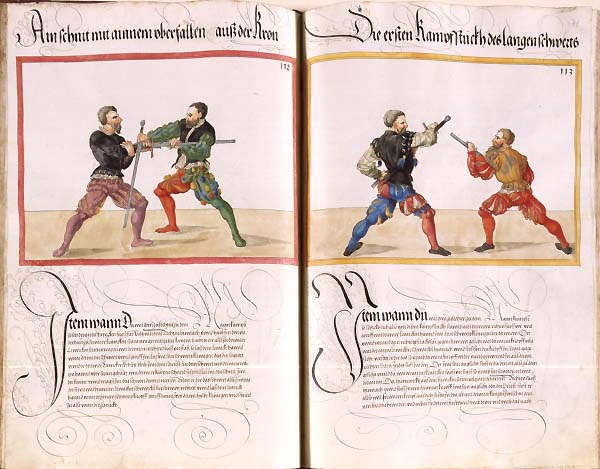 page of Paulus Hector Mair, Mscr. Dresd. C 93 (1540s), German longsword section: fol. 75v: 112: Am schnit mit ainem uberfallen aus der Kron fol. 76r: 113: Die ersten Kampfstuck des langen Schwerts sorry, this image is misnamed. It is not from cod. Winob. 10825, but rather from Mscr. Dresd. C 93.dab (ᛏ) 18:24, 27 Dec 2004 (UTC)